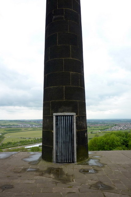 Penshaw Monument, Doorway